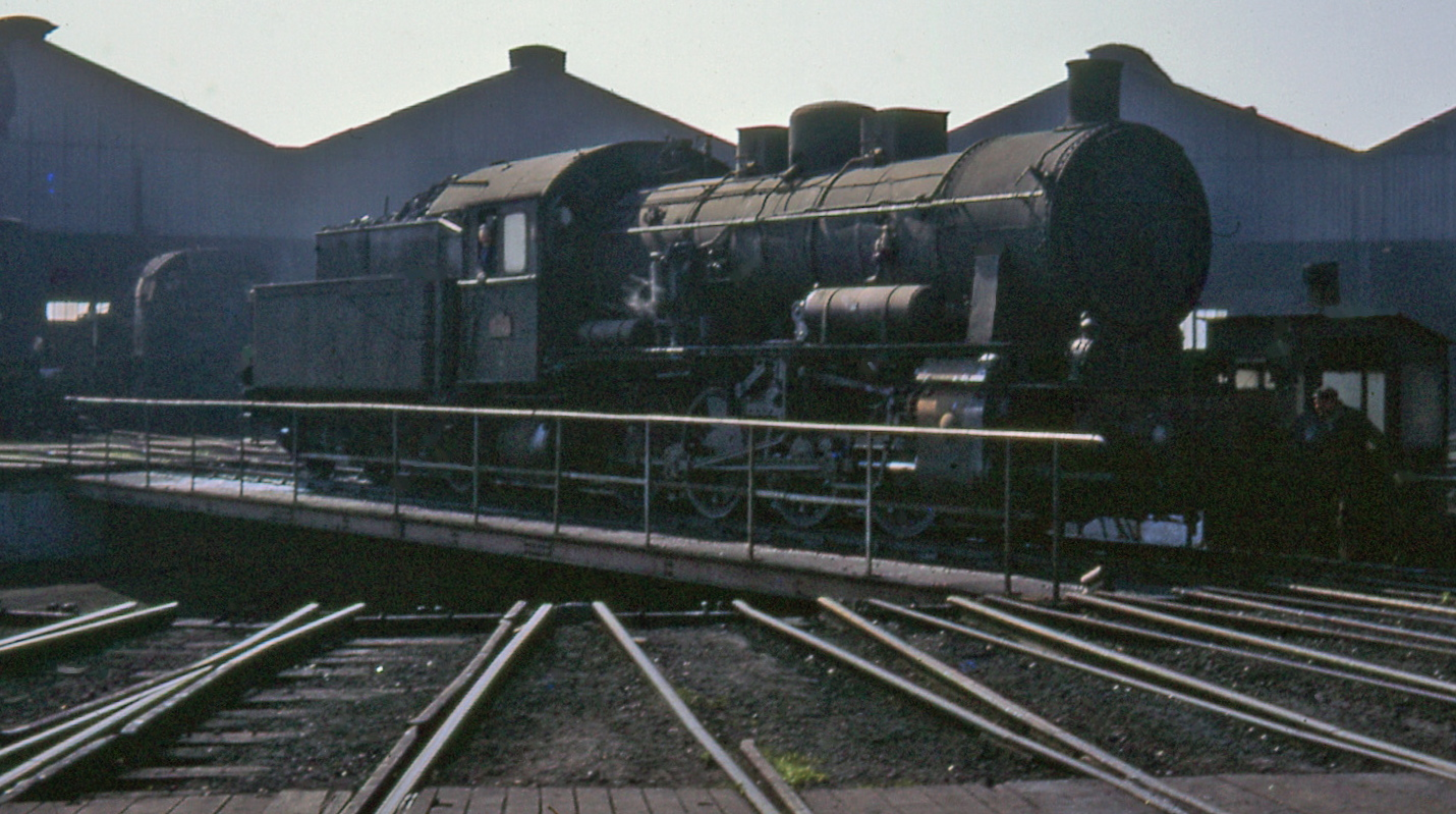 SNCF 040D class at Calais shed